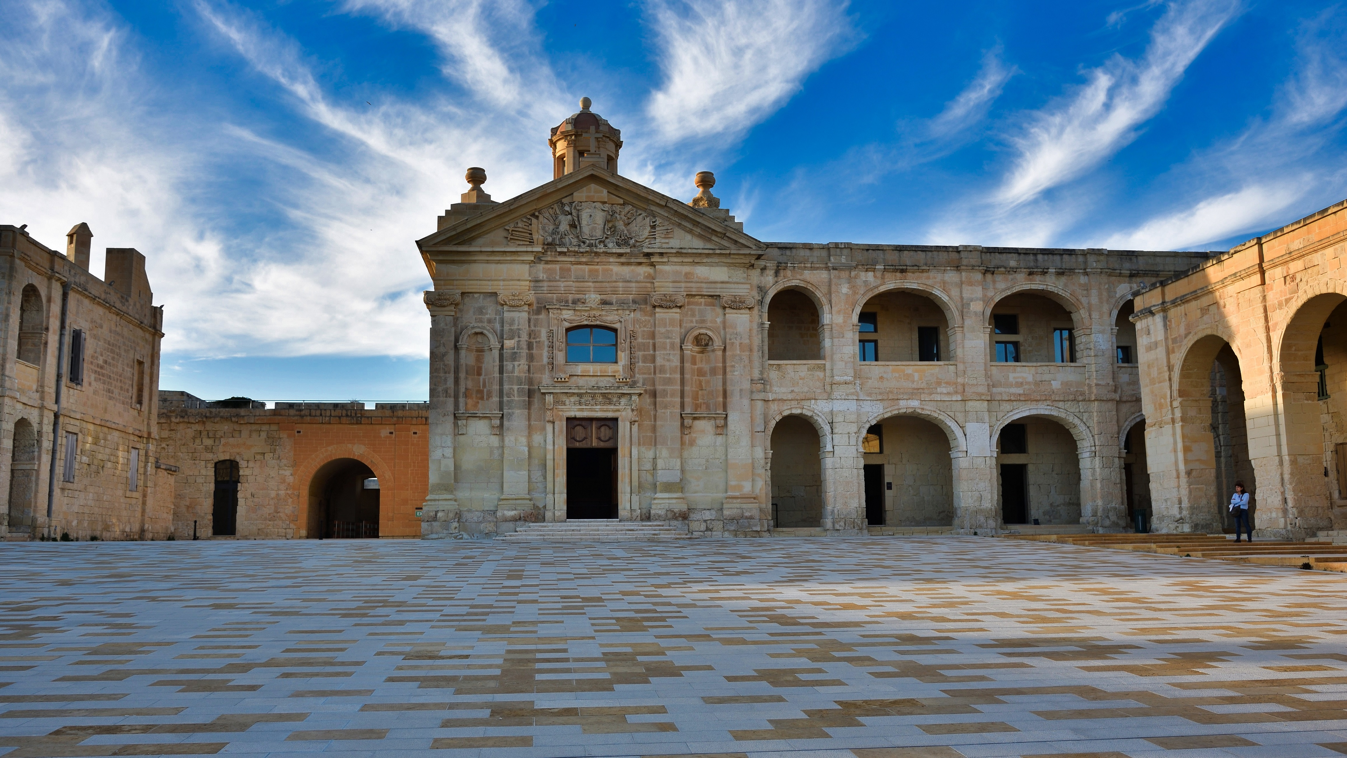 Chapel of St Anthony of Padua – Fort Manoel This media is about Maltese cultural property with inventory number 01324.